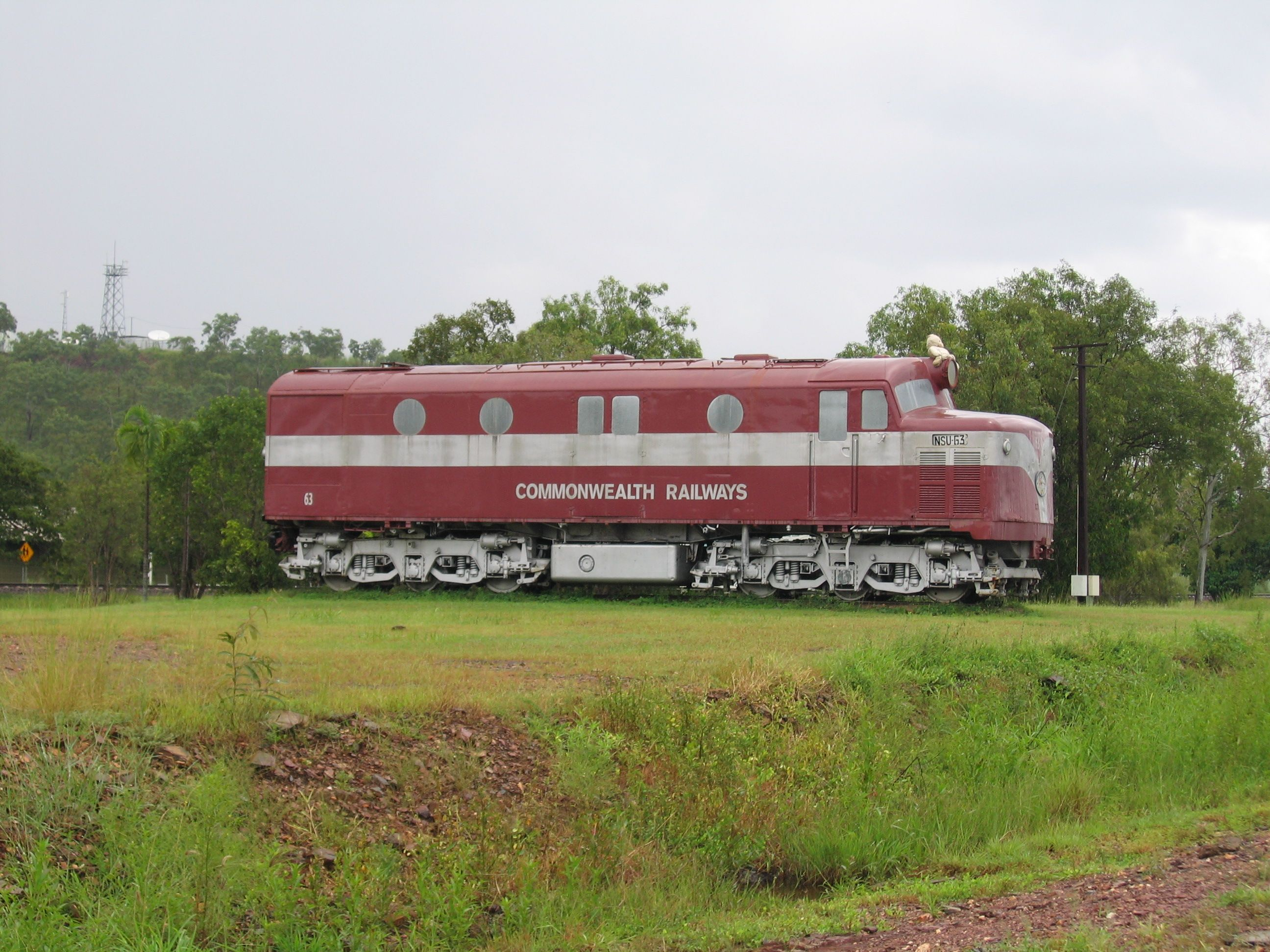 Commonwealth Railways NSU class diesel-electric locomotive no. 63 of the former North Australia Railway at the Adelaide River Museum